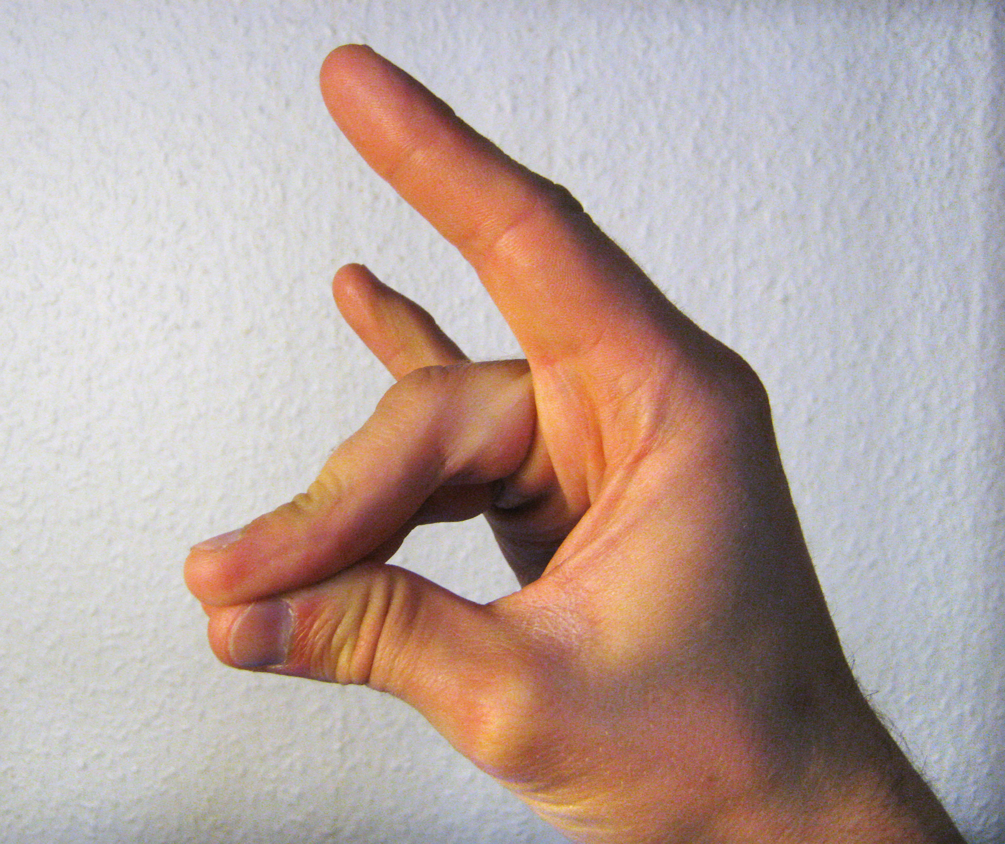 Fox of silence